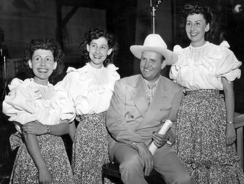 Publicity photo of Gene Autry and the vocal group, the Pinafores, who appeared with him on his weekly radio program The Gene Autry Show.